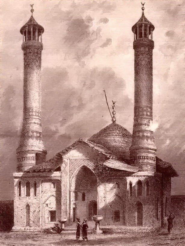 «Mosque of Govhar aga». Shusha.